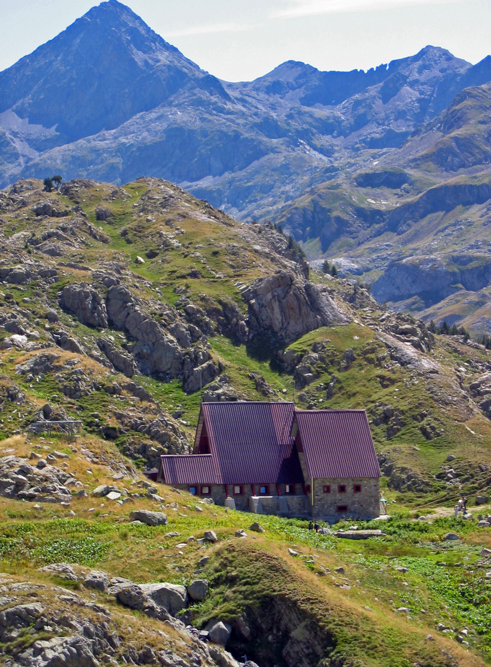 Refugio De Respomuso, Pyrenees, Spain